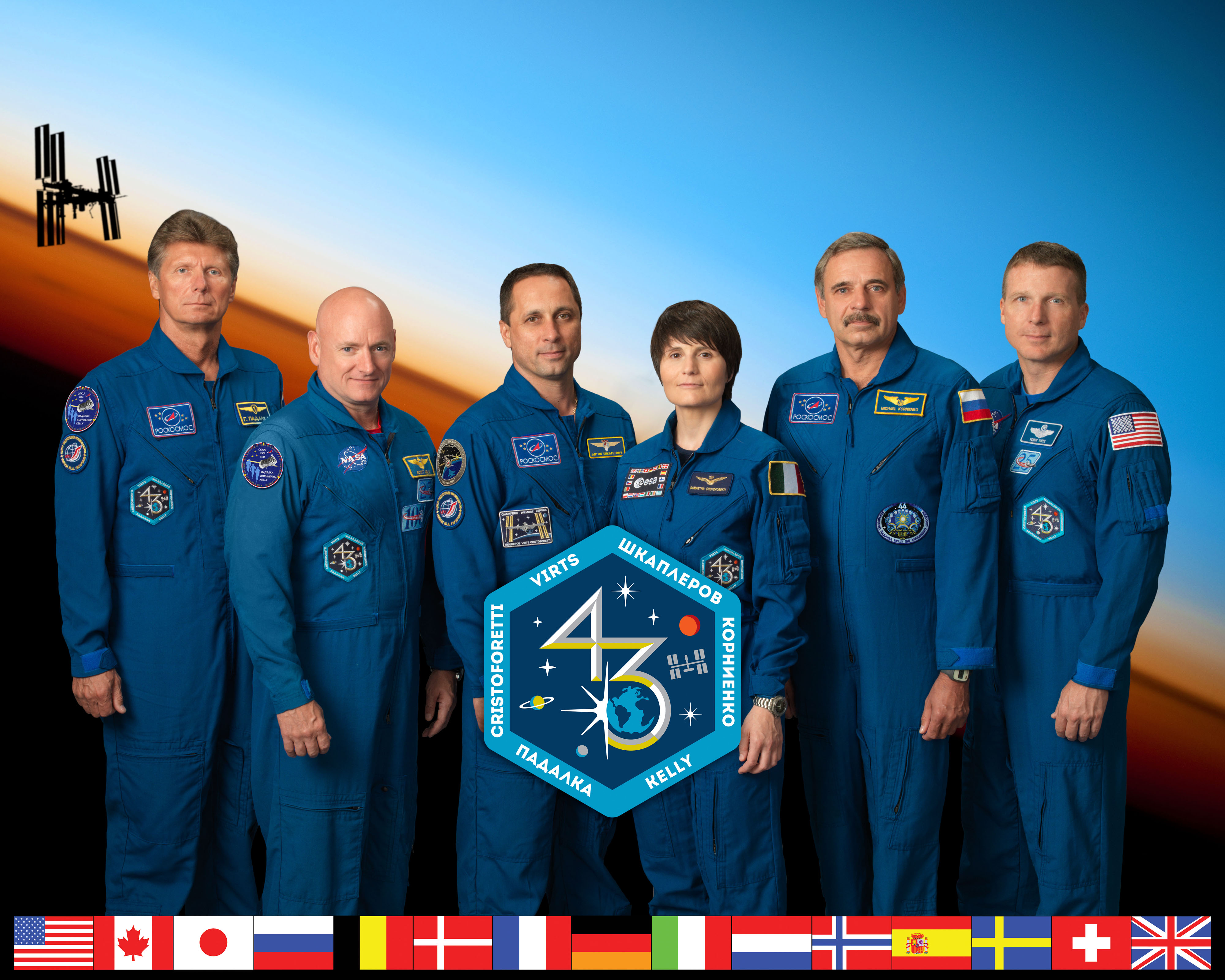 Expedition 43 crew members take a break from training at NASA's Johnson Space Center to pose for a crew portrait. Pictured from the right are NASA astronaut Terry Virts, commander; along with Russian cosmonaut Mikhail Kornienko, European Space Agency astronaut Samantha Cristoforetti, Russian cosmonaut Anton Shkaplerov, NASA astronaut Scott Kelly and Russian cosmonaut Gennady Padalka, all flight engineers.